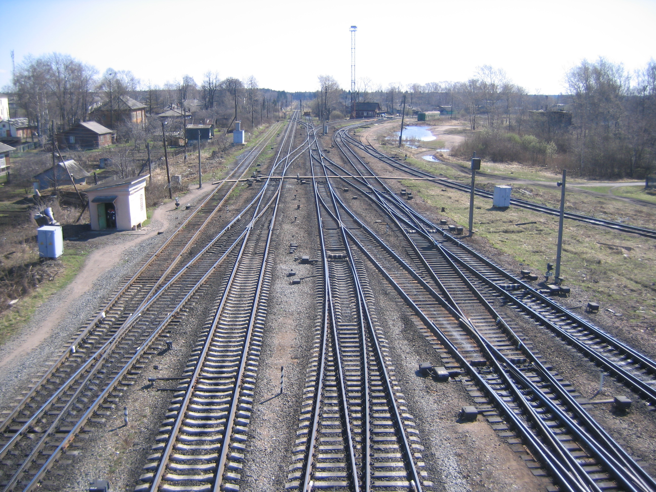 Sonkovo railway station, Tver region, Russia